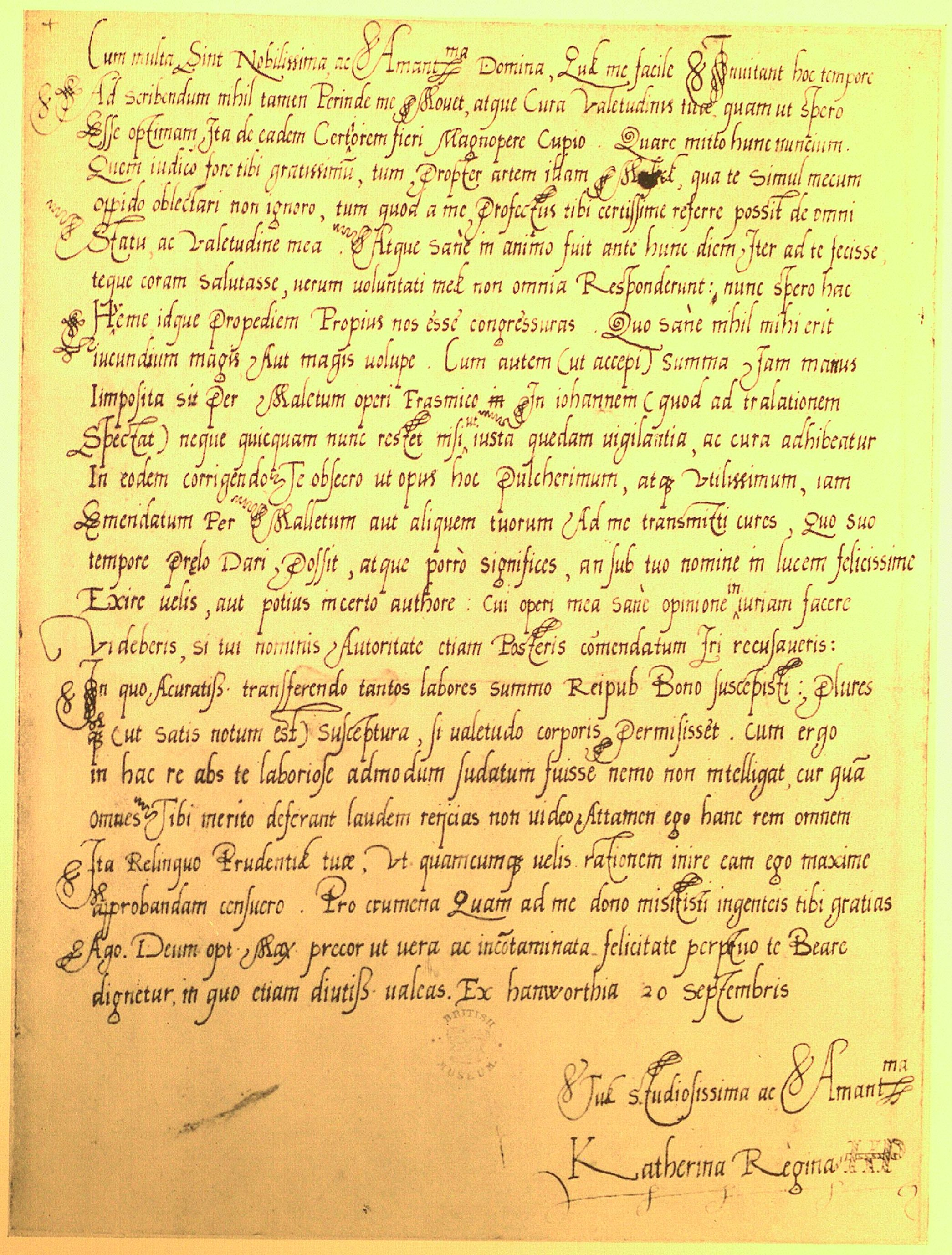 An autograph letter of Queen Catherine Parr. London, British Library, Cotton Vespasian F III, fol. 37r.